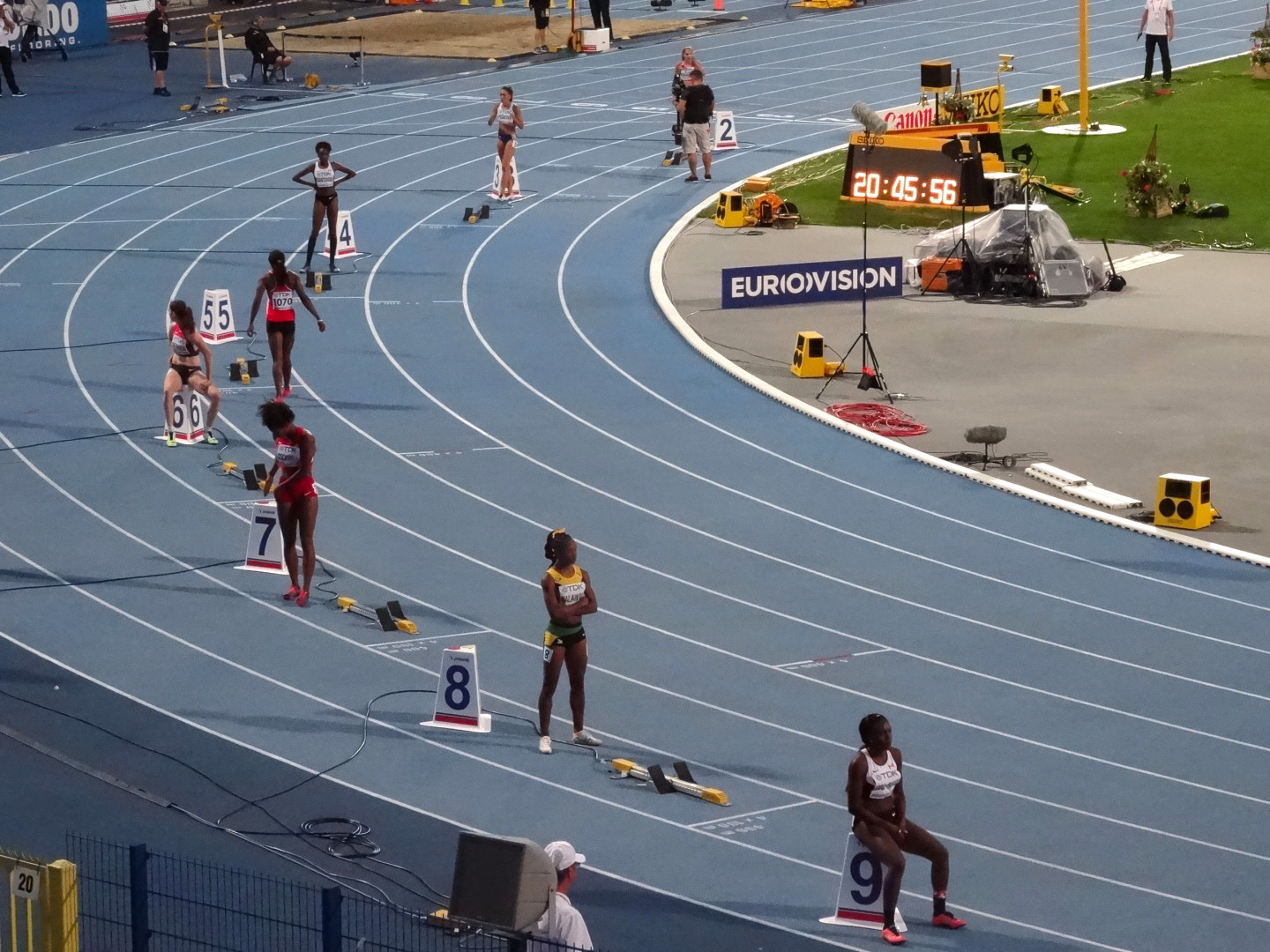 2016 IAAF World U20 Championships in Bydgoszcz, 400m hurdles women final